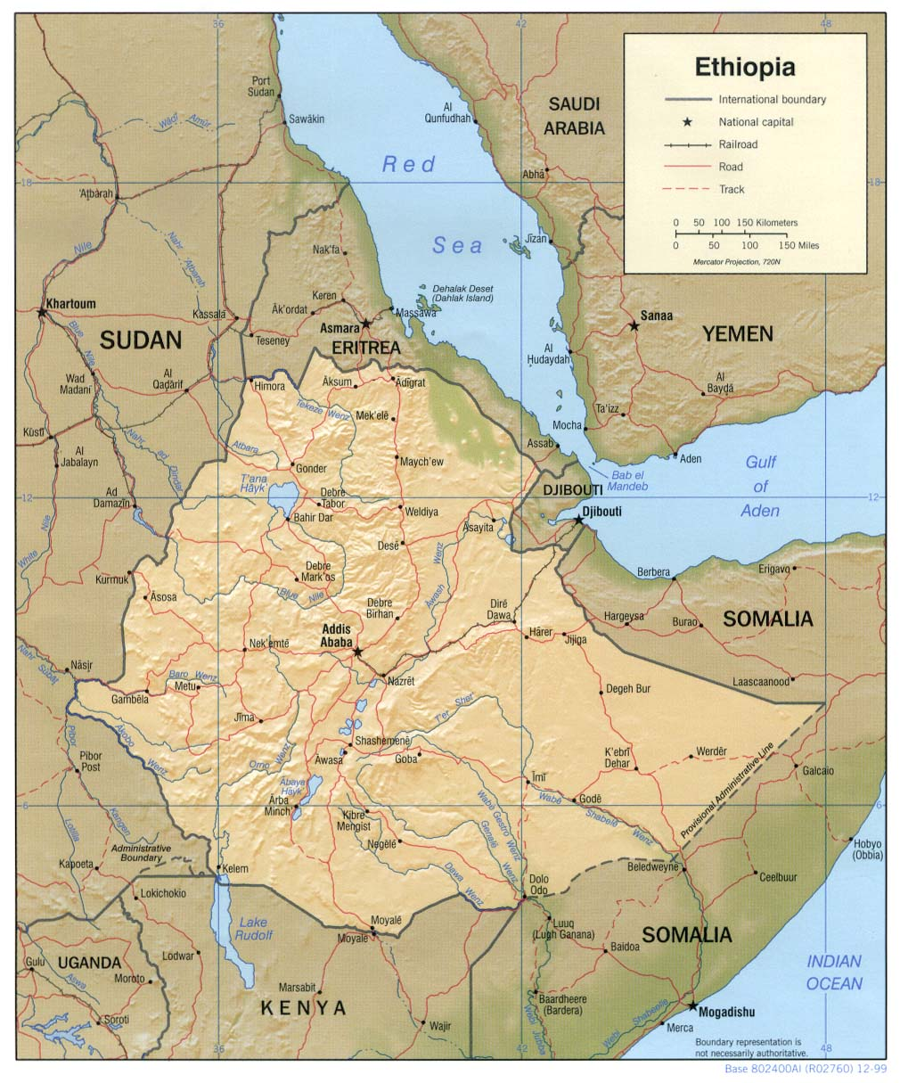 Shaded relief map of Ethiopia, 1999, produced by the U.S. Central Intelligence Agency.